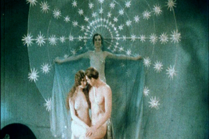 Screenshot of Johnny Weissmuller with unidentified actress from the 1929 film Glorifying the American Girl.